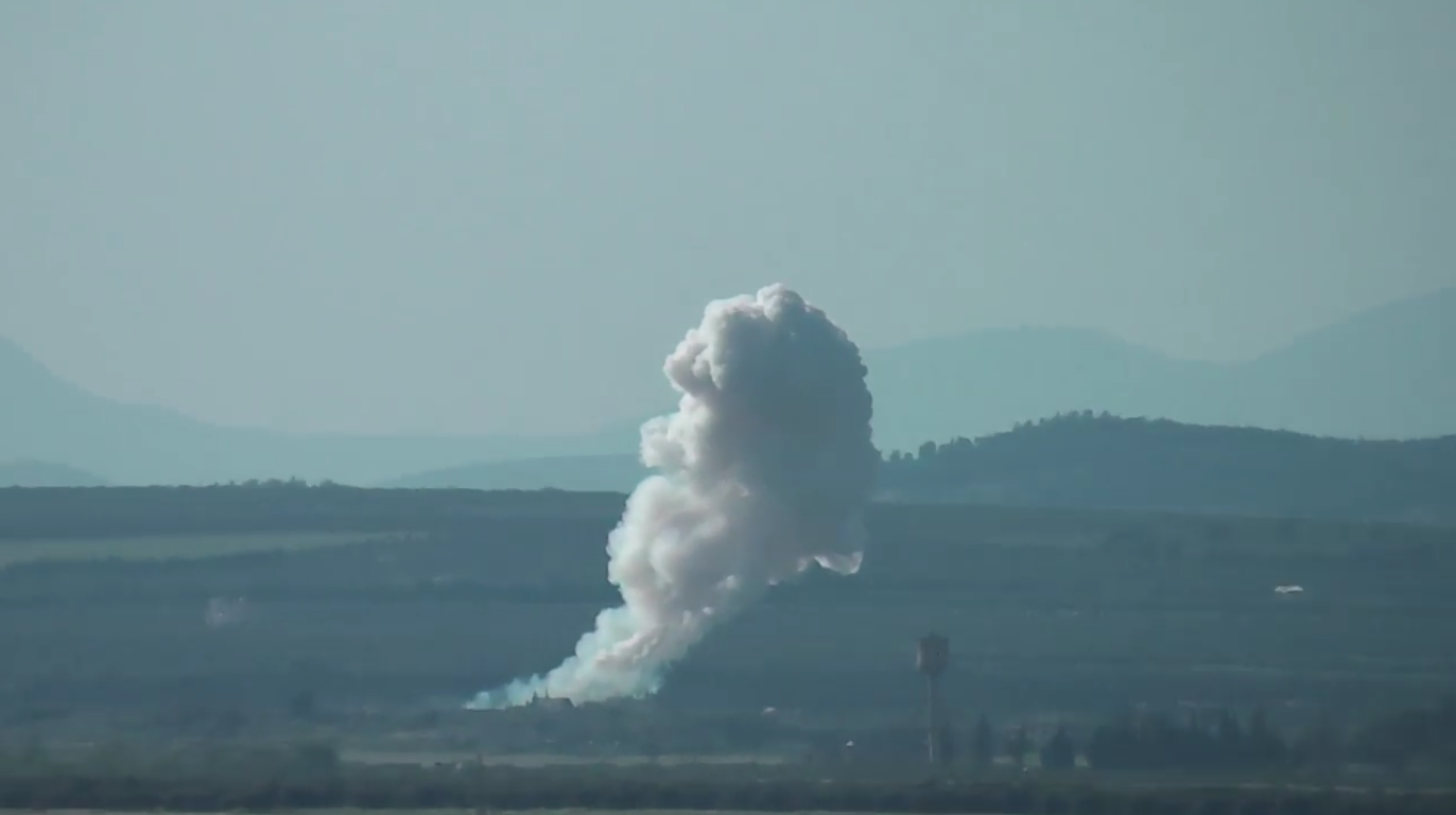 The Syrian Air Force carrys out an airstrike on the surroundings of Menagh Air Base in order to aid the besieged government forces inside the base.